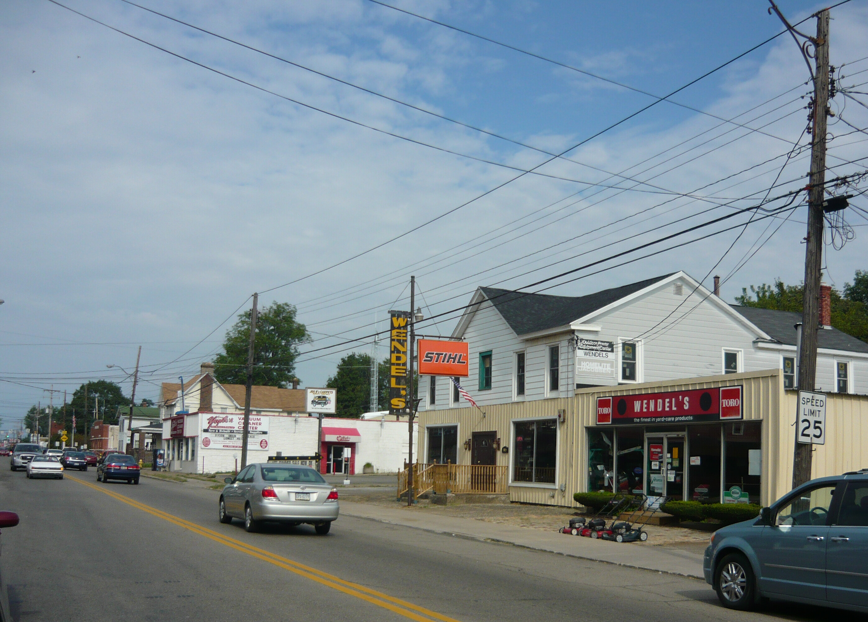 Looking eastward on Buffalo Road (US Route 20), Wesleyville, Erie County, Pennsylvania.